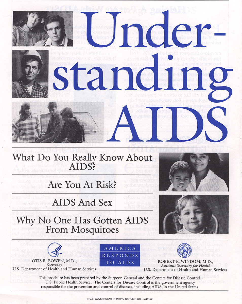 This is a page from a booklet called Understanding AIDS. It was printed by the United States government and mailed to every American household in 1988 to educate the public about AIDS.